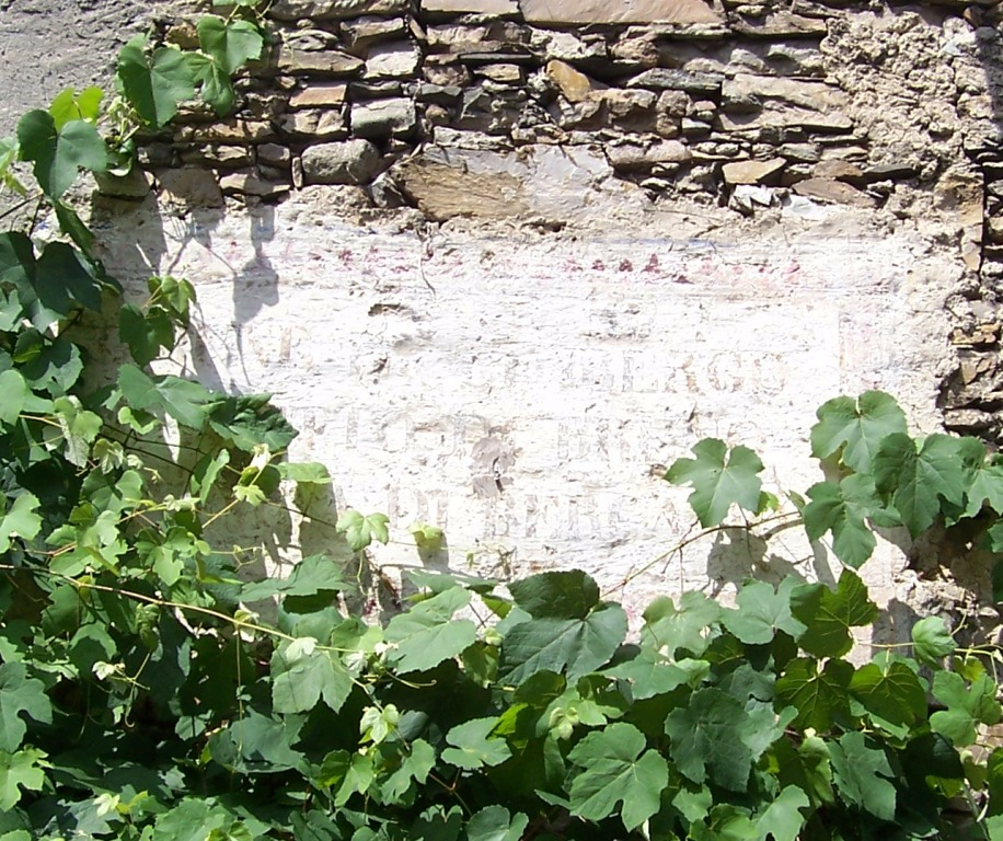 Old wall painting. Cimbergo, Val Camonica